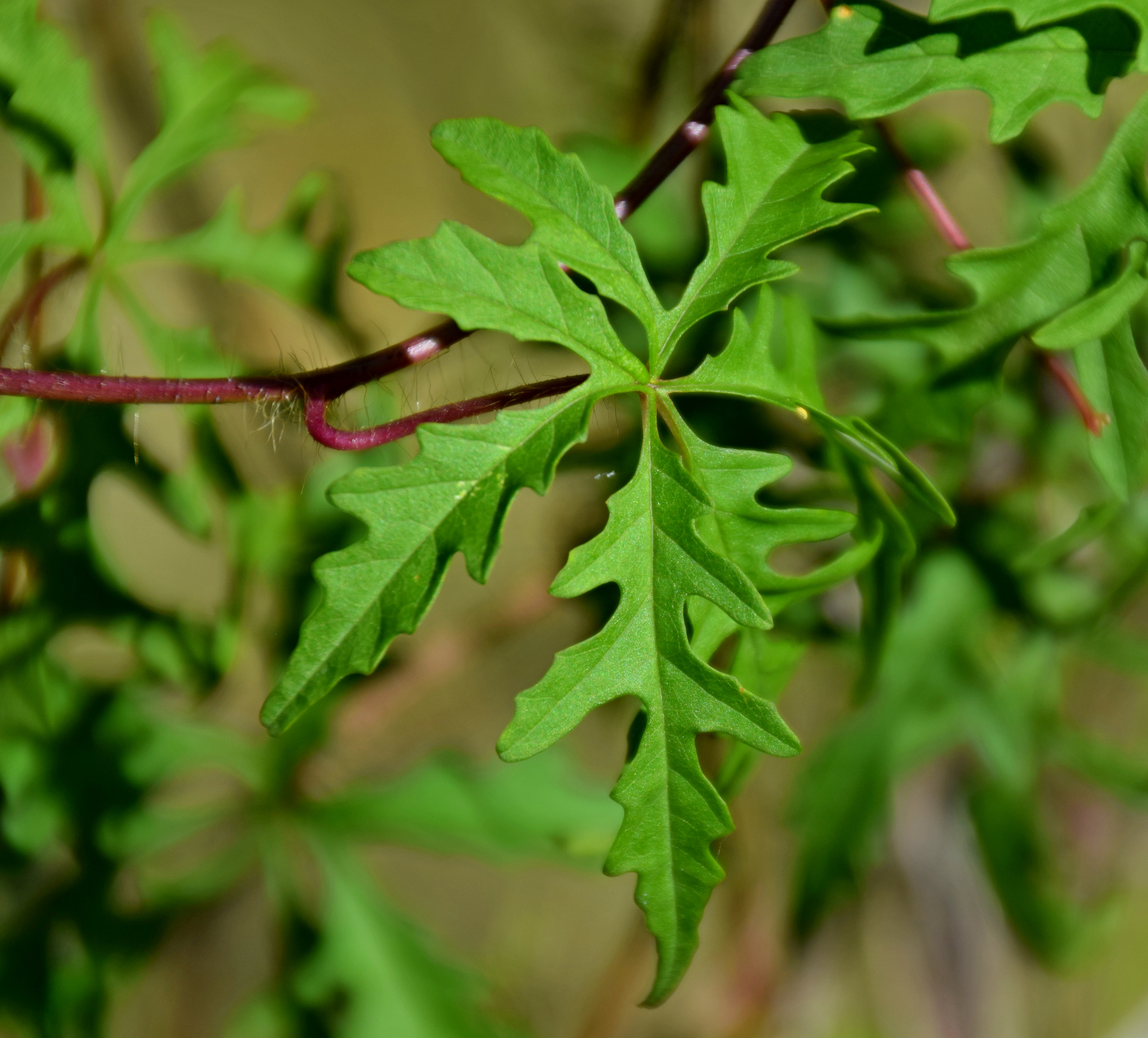 Merremia dissecta in Jardin des Plantes de Toulouse